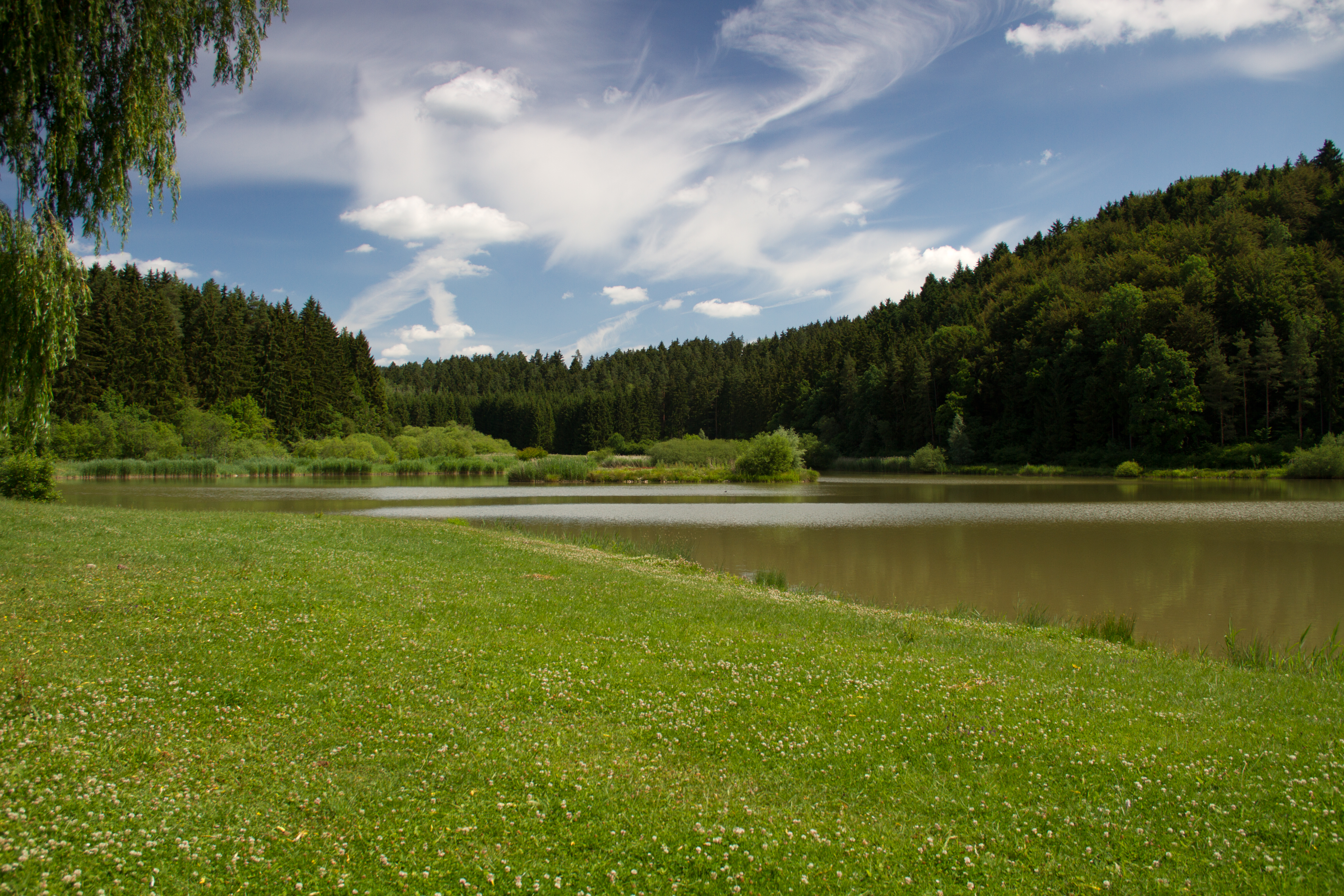 Nature experience at Linsenbergweiher in 78628 Rottweil, Germany; "Linsenbergweiher" nature reserve (NSG 3.256)